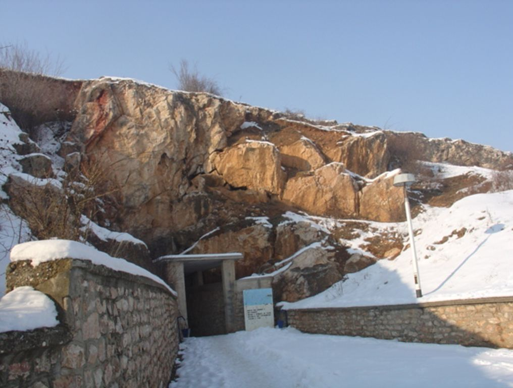 Gadime cave